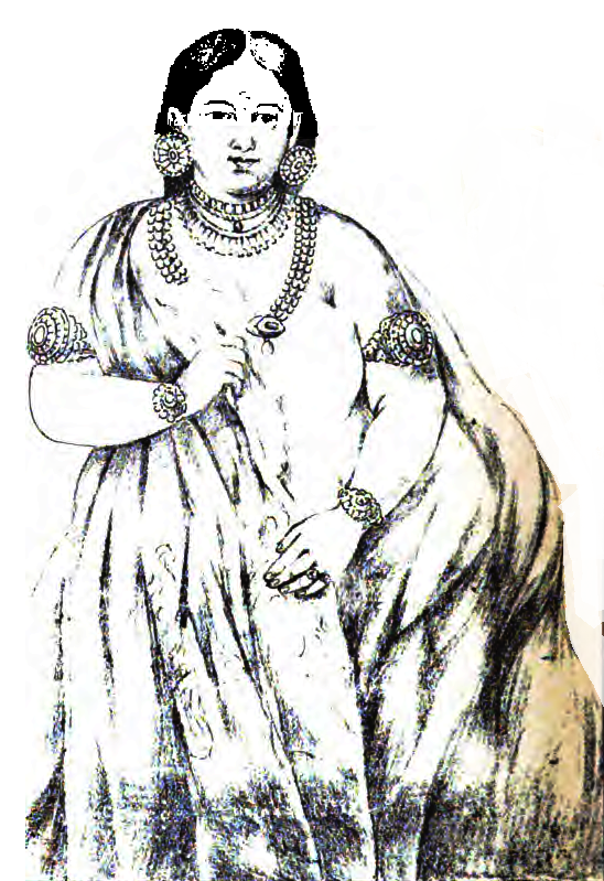 Her Highness Gouree Parwathi Bhye